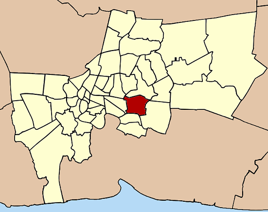 Map of Bangkok, Thailand, highlighting the district (khet) Suan Luang (สวนหลวง)